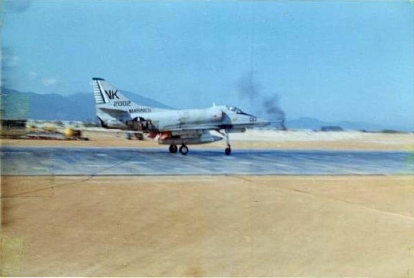 A U.S. Marine Corps Douglas A-4E Skyhawk (BuNo 152002) of Marine attack squadron VMA-121 Green Knights landing at Chu Lai, Vietnam, using an arrester cable, in March 1967. VMA-121 was deployed with A-4s to Vietnam in 1966-67 and 1968-69.